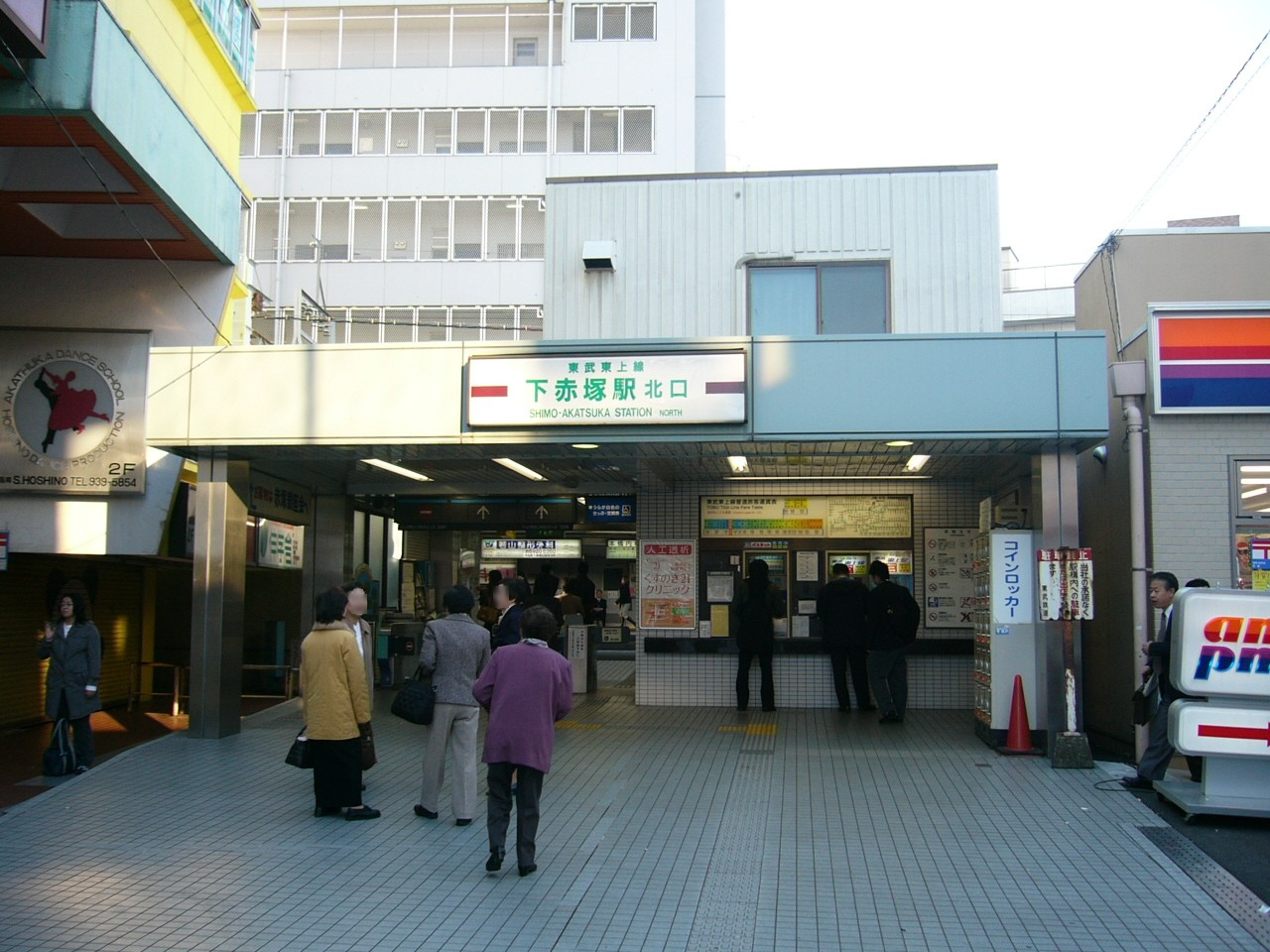 The north entrance to Shimo-akatsuka Station on the Tobu Tojo Line